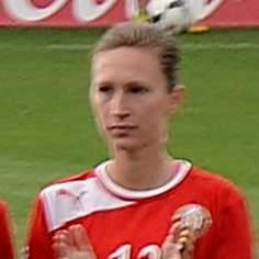 Belarus women's national association football team in the away match of 2015 FIFA Women's World Cup qualification – UEFA Group 6 against Turkey on September 17, 2014